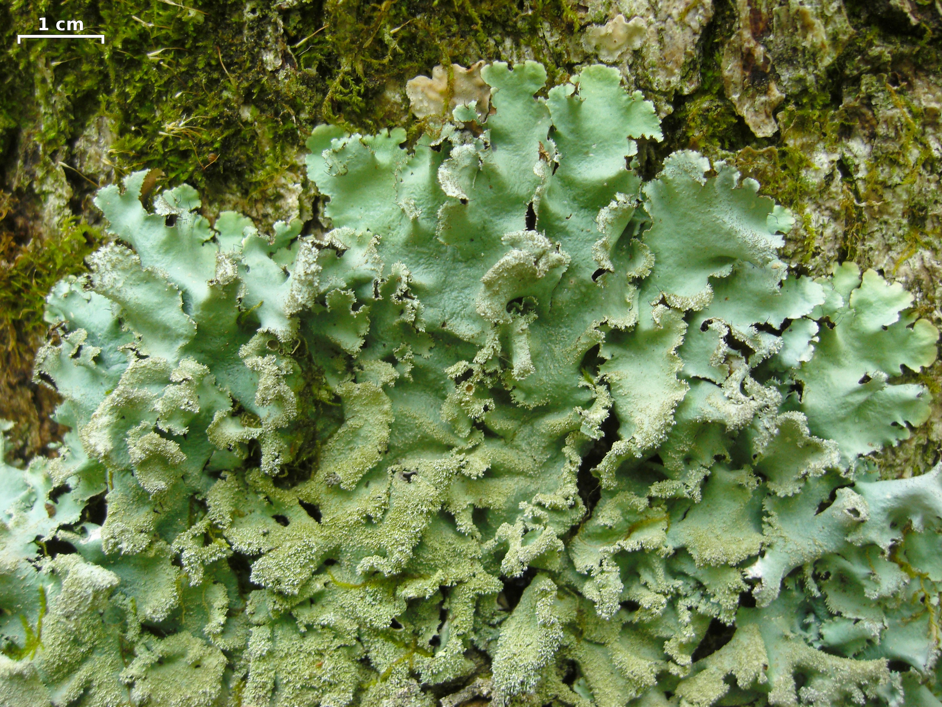 Snowbird Mountain, Pisgah N.F., North Carolina, 20110519